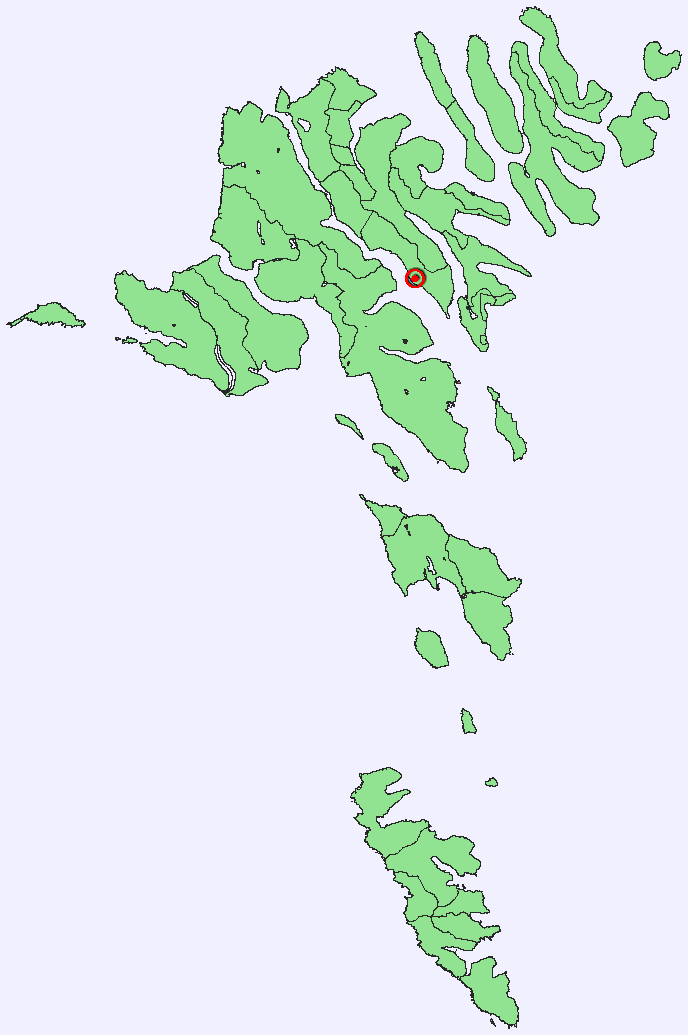 Position of Morskranes in the Faroe Islands Graphics: Arne List